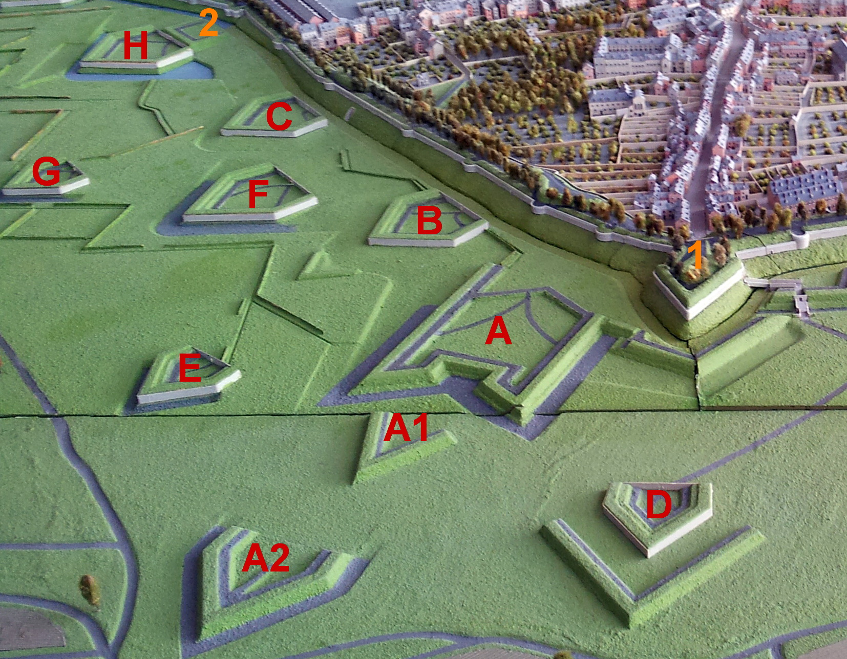 Detail of the Maquette of Maastricht with a view of the fortifications to the west of the city. The scale model was made in 1974-82 after the 18th-century original made for King Louis XV of France (now in the Palais des Beaux-Arts in Lille). The area depicted here is the Hoge Fronten fortifications between Brussels Gate (1) and Lindenkruis Gate (2).